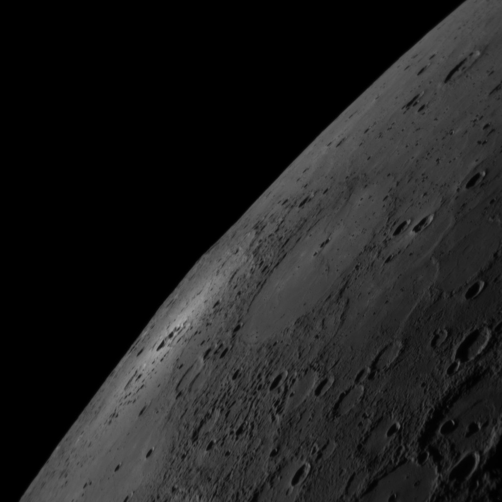 Copland crater (center) and Nathair Facula (bright patch near horizon) on Mercury. MESSENGER Narrow Angle Camera image, acquired on MESSENGER's second flyby of the planet. North is in upper right. The length of the horizon in this image is about 465 km, and Copland is about 143 km wide. Emission Angle: 81.3 Incidence Angle: 68.6 Latitude: 38.2 Longitude: 65.5 Phase Angle: 138.2